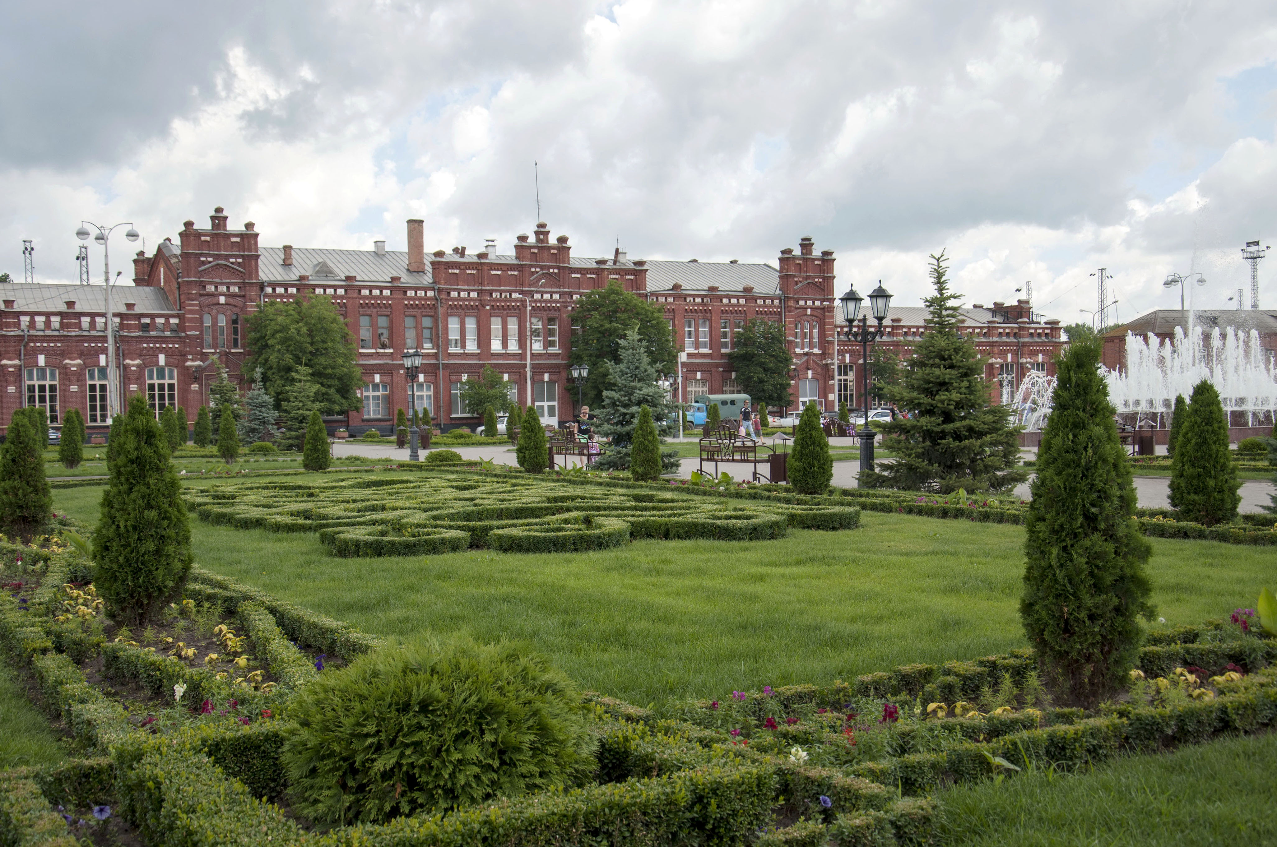 The railway station (1903) and station square in Kropotkin Krasnodar region, Russia